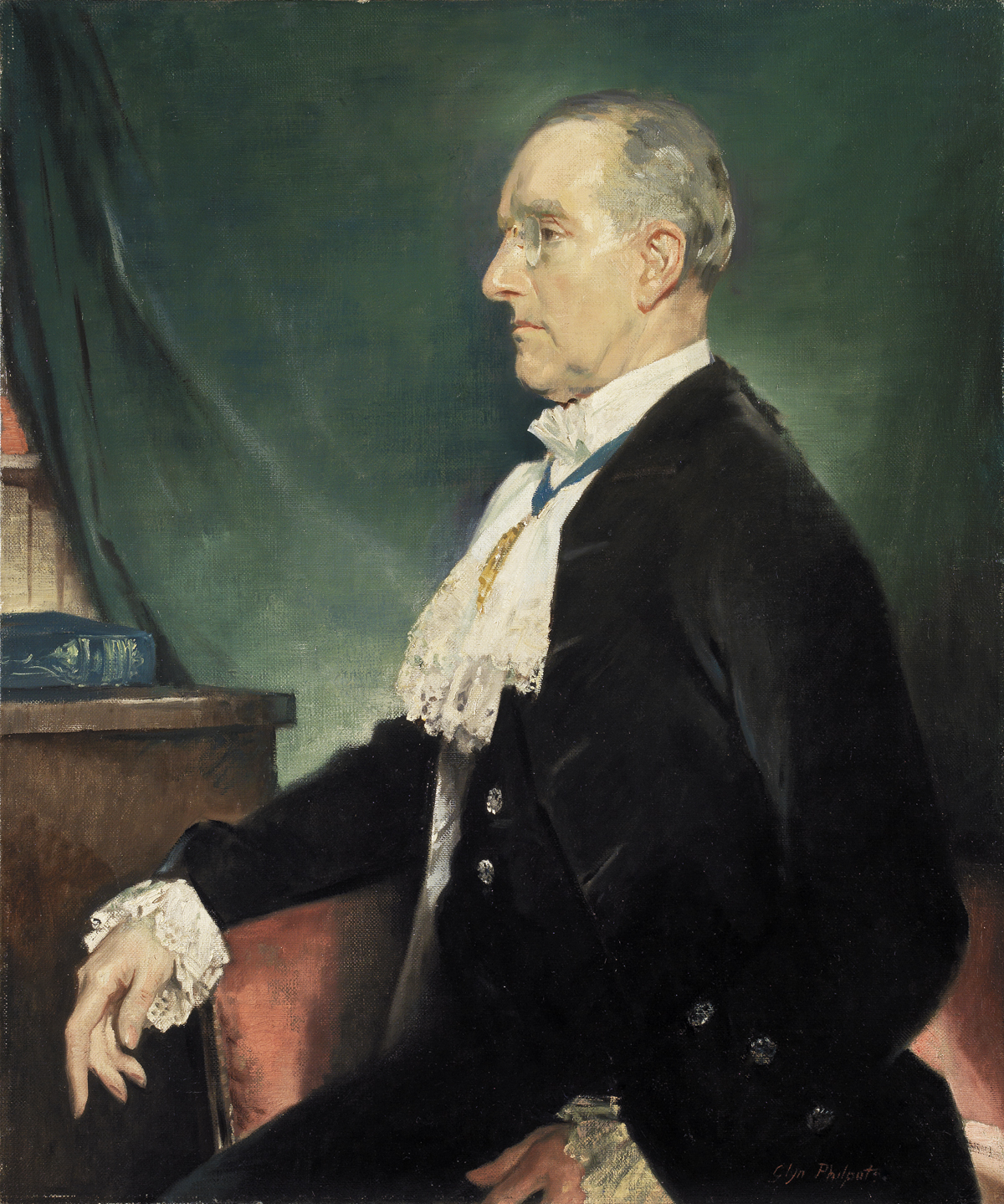 Philpot, Glyn Warren; Sir Banister Fletcher (1866-1953), PRIBA, FSA; The Royal Institute of British Architects